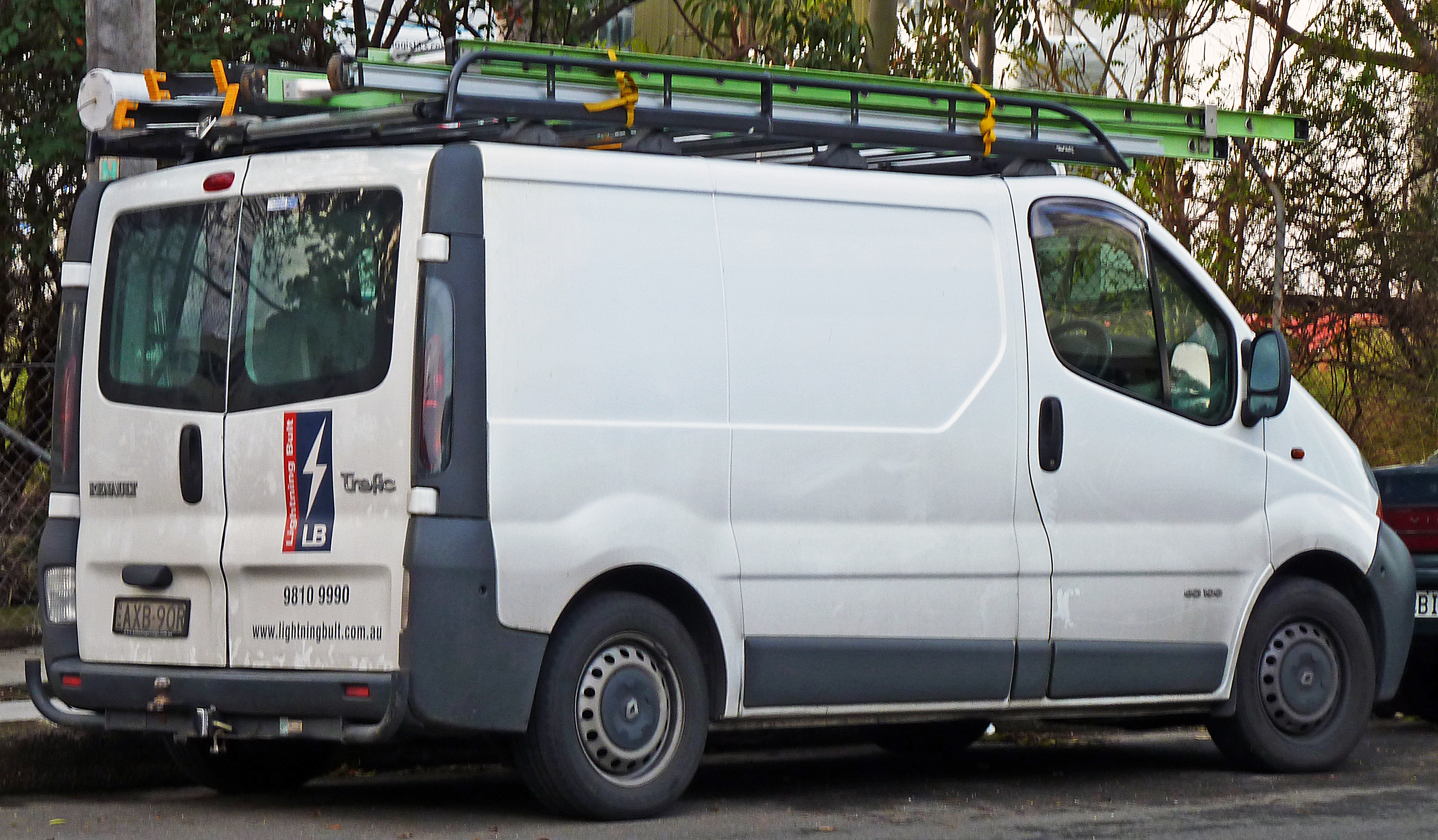 2004–2007 Renault Trafic (X83) low roof van. Photographed in Erskineville, New South Wales, Australia.